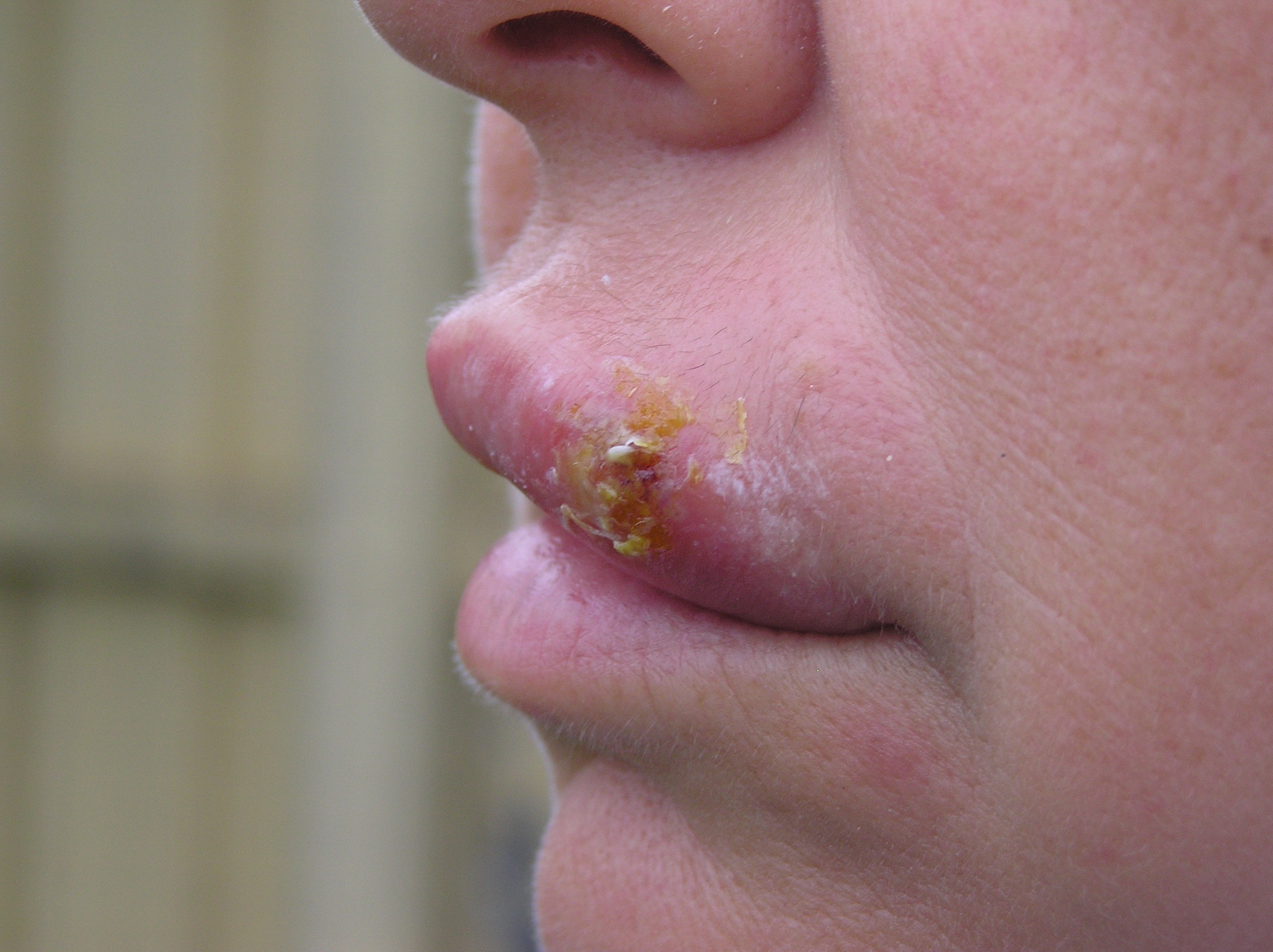 Cold sore